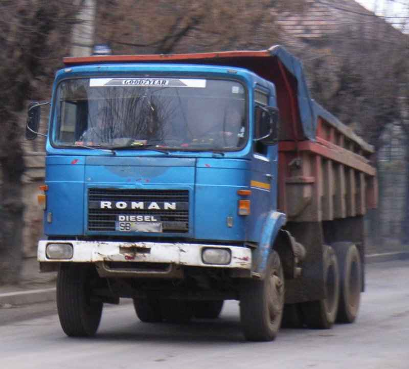 Roman Diesel truck.